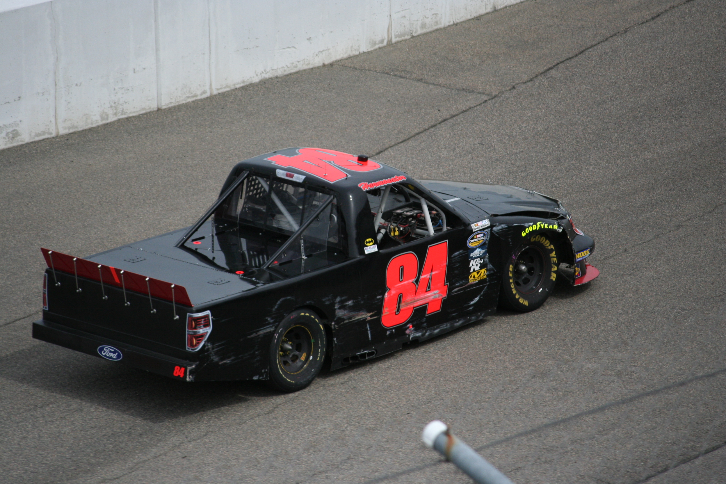 Mike Harmon drives his Ford, using Chris Fontaine Racing's No. 84, away from an accident during the North Carolina Education Lottery 200 at Rockingham Speedway, Rockingham, NC, April 14, 2013